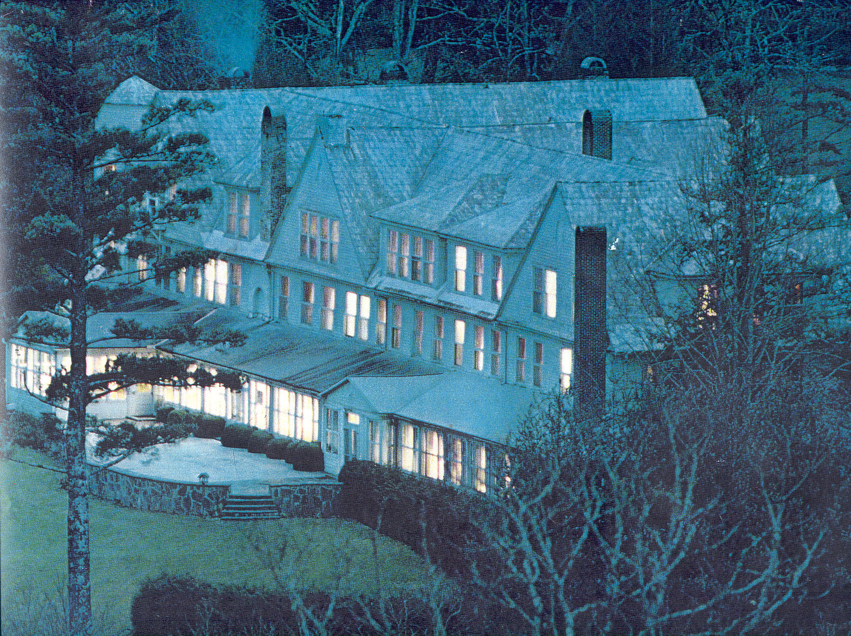 The former Fairfield Inn on Lake Fairfield near US 64 in Cashiers, North Carolina as it looked in 1980, 6 years before it was demolished.